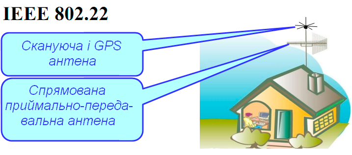 IEEE 802.22